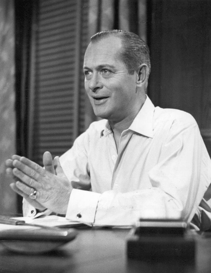 Photo of Robert Montgomery from the telvision program Robert Montgomery Presents. The program was an anthology-type, with Montgomery as the host. The name of the program changed quite a bit when different companies sponsored the show.